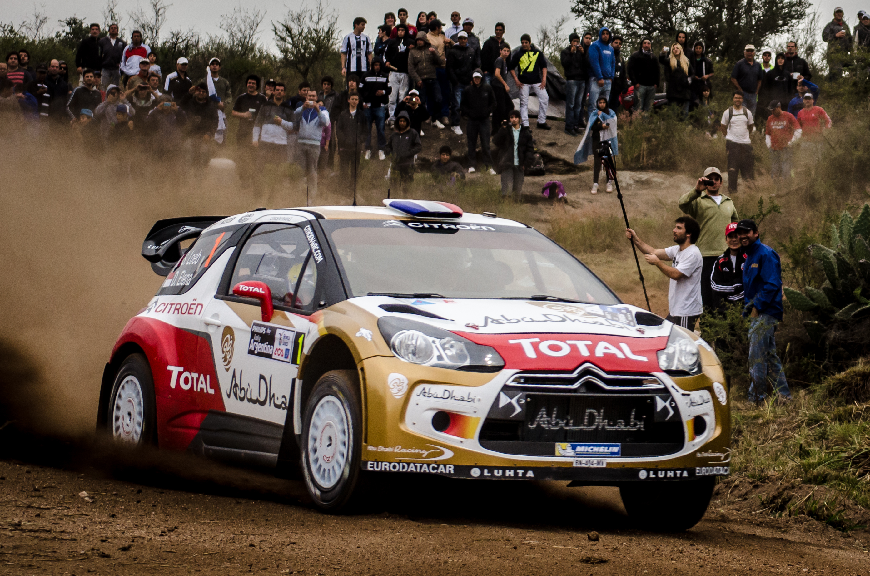 1 Sébastien Loeb & Daniel Elena onboard Citroën DS3 WRC during Argentina 2013 WRC.